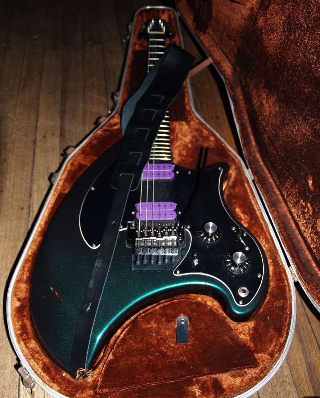 Billy Barnett's Ovation BreadWinner